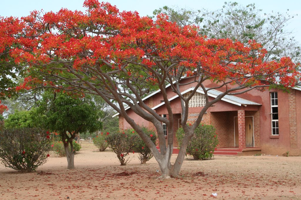 George Benson Christian College of Namwianga Mission near Kalomo town southern province in Zambia